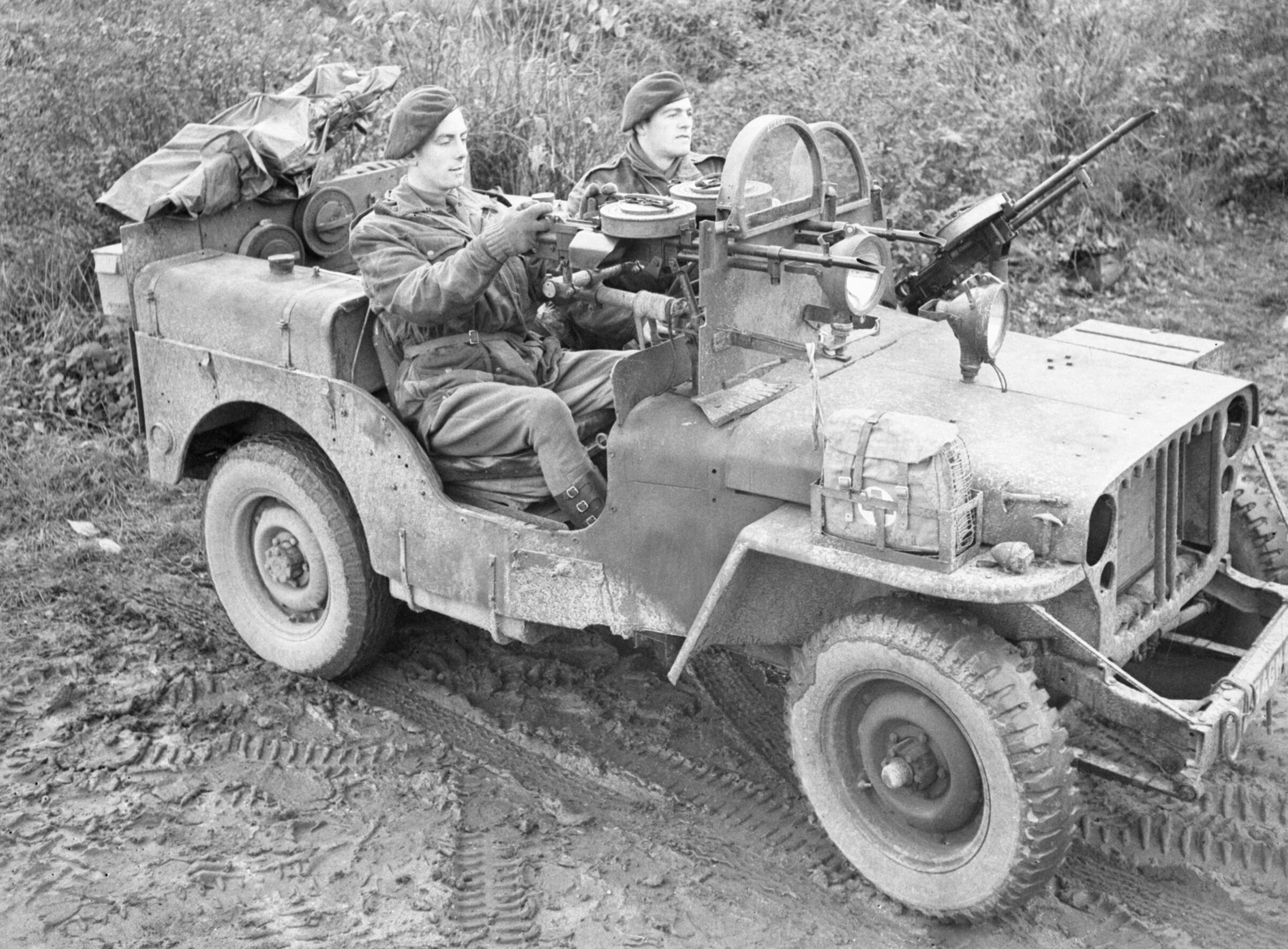 An SAS jeep manned by Sergeant Schofield and Trooper Jeavons of 1st SAS near Geilenkirchen, Germany, 18 November 1944. A jeep manned by Sergeant A Schofield and Trooper O Jeavons of 1 SAS near Geilenkirchen in Germany. The jeep is armed with three Vickers 'K' guns, and fitted with armoured glass shields in place of a windscreen. The SAS were involved at this time in clearing snipers in the 43rd Wessex Division area.